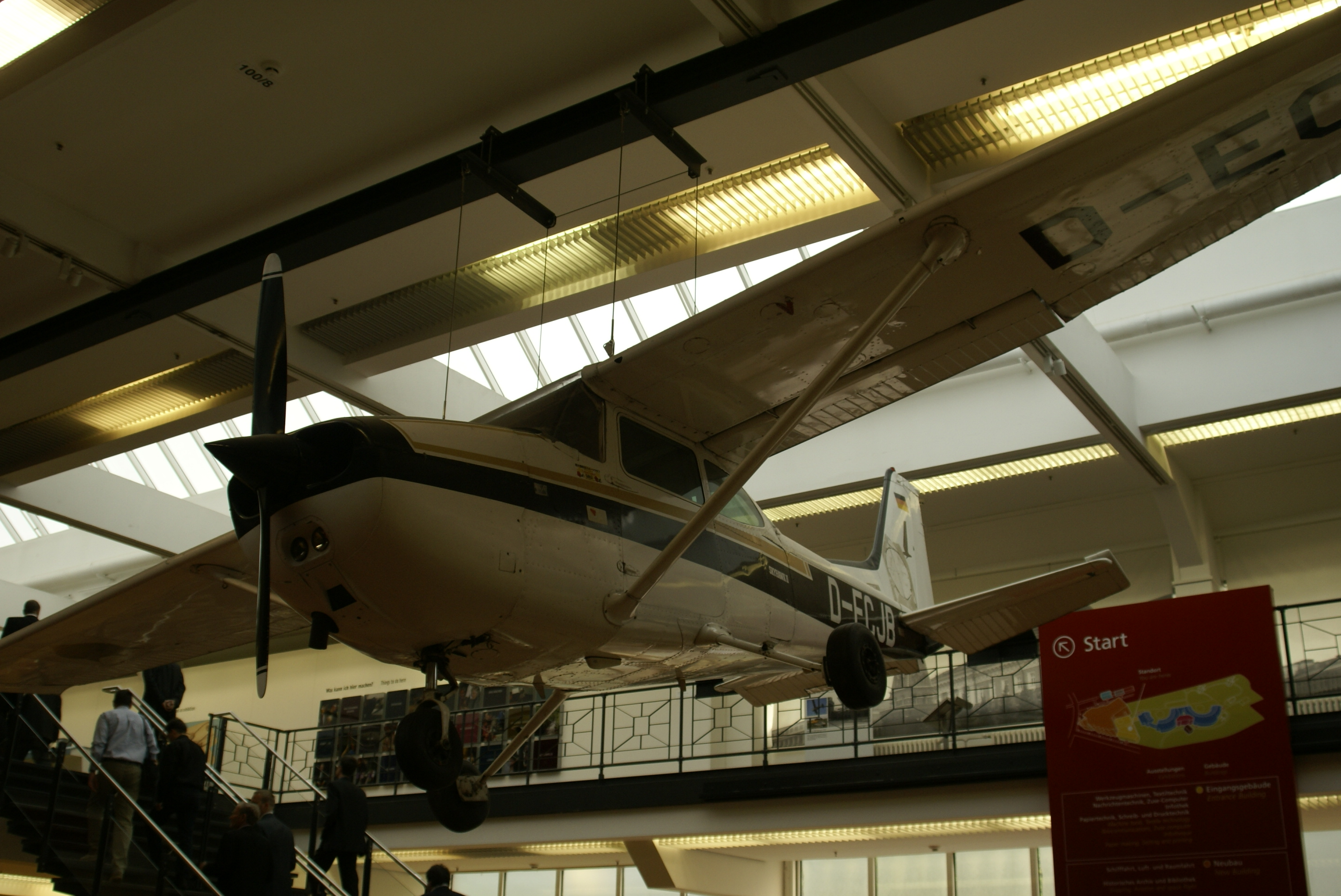 Plane from the German Technical Museum, similar to the plane of Mathias Rust